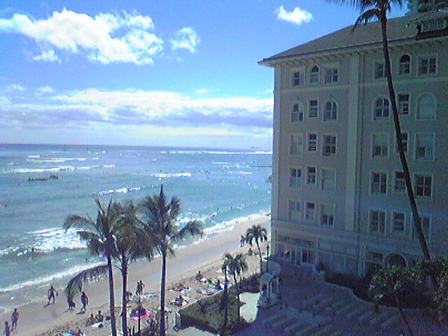 View from Moana Surfrider A Westin Resort&Spa